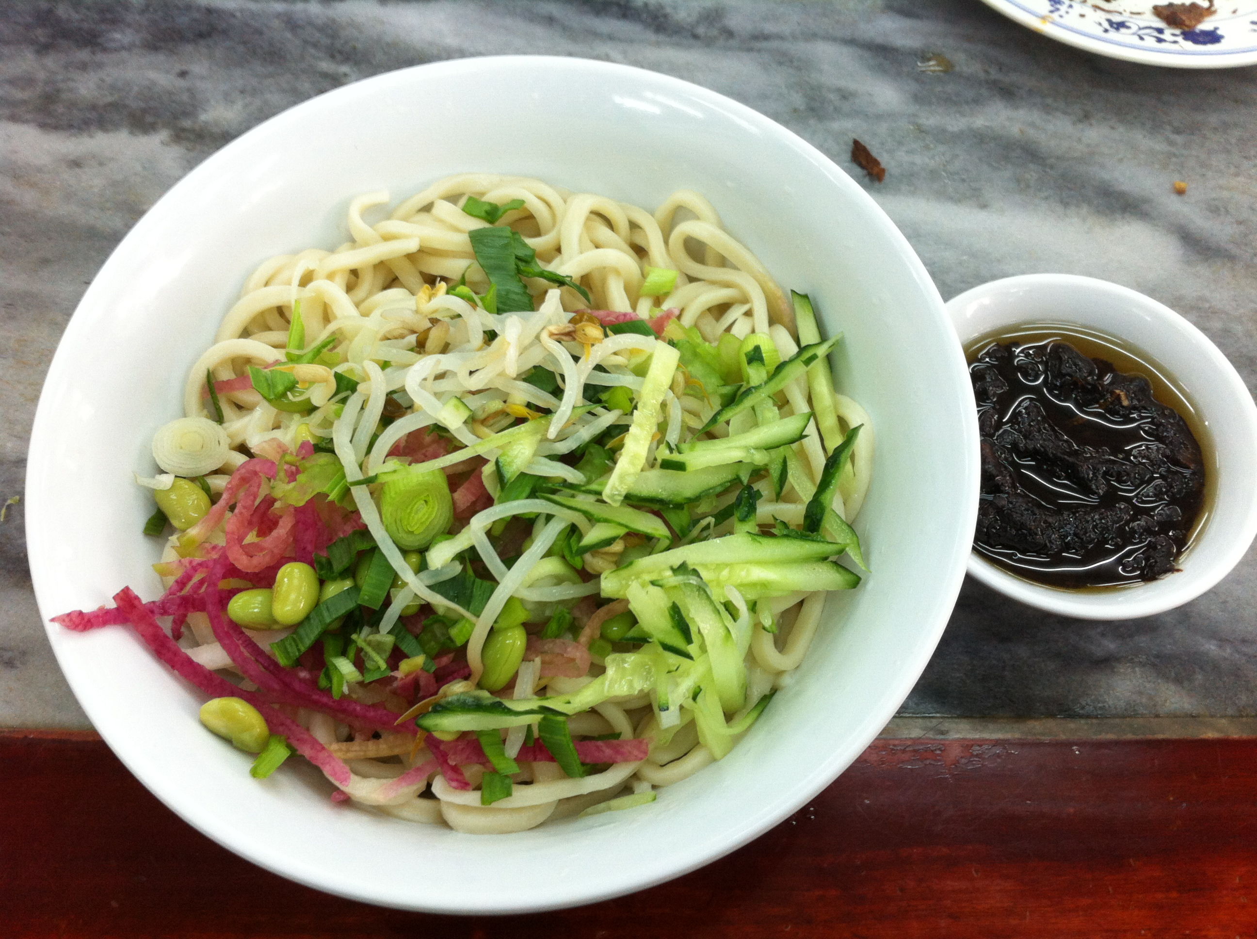 A serving of Zhajiangmian with 8 condiments, right before adding the sauce.